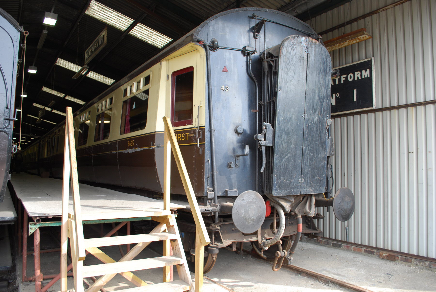 GWR Collett 61' "Centenary" First Diner No.9635, Diagram H43, Lot 1540, built at Swindon 1935. At Didcot shed, 04/11.